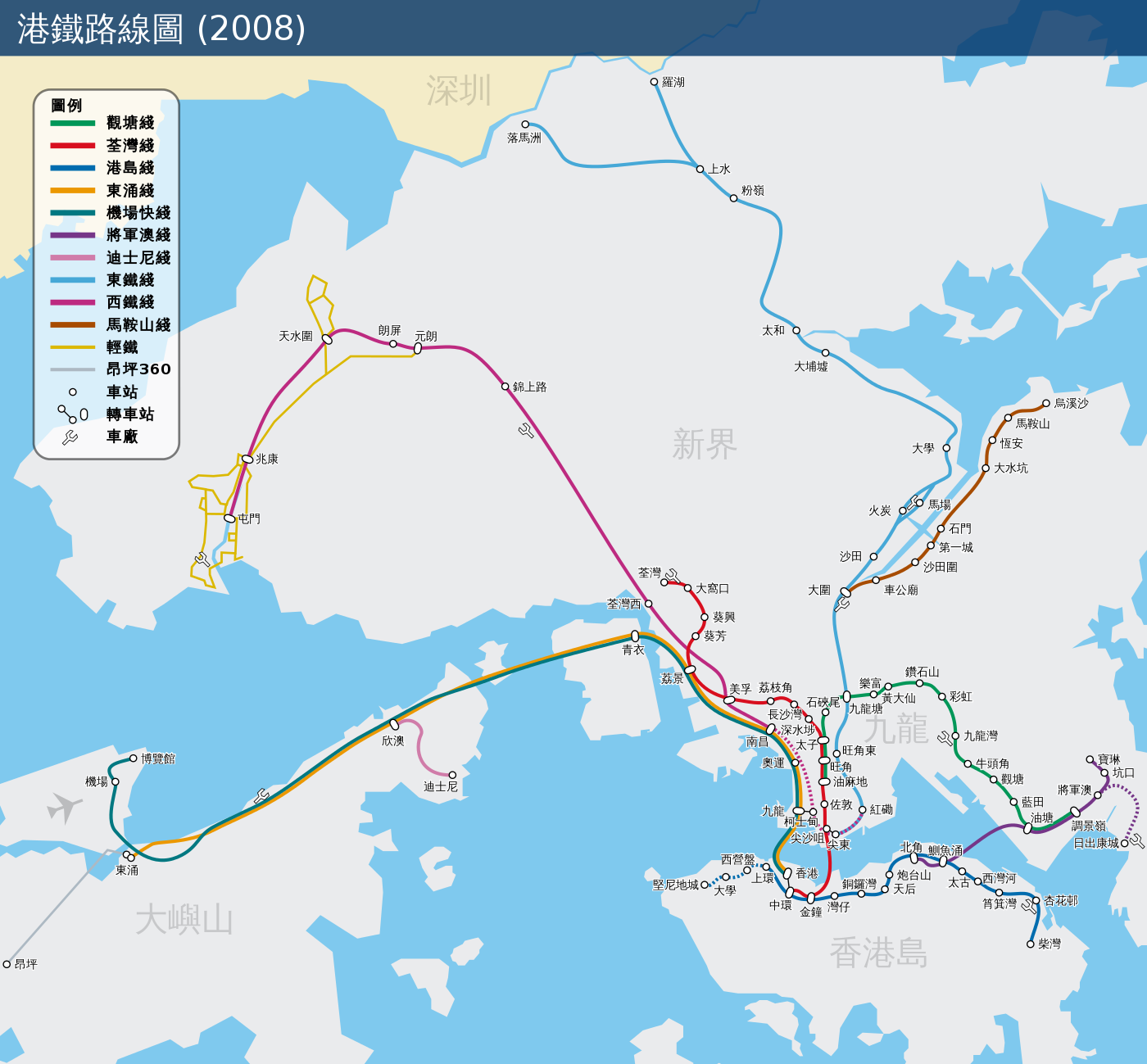 PNG route map for MTR, render from its SVG counterpart Image:Hong Kong Railway Route Map.svg